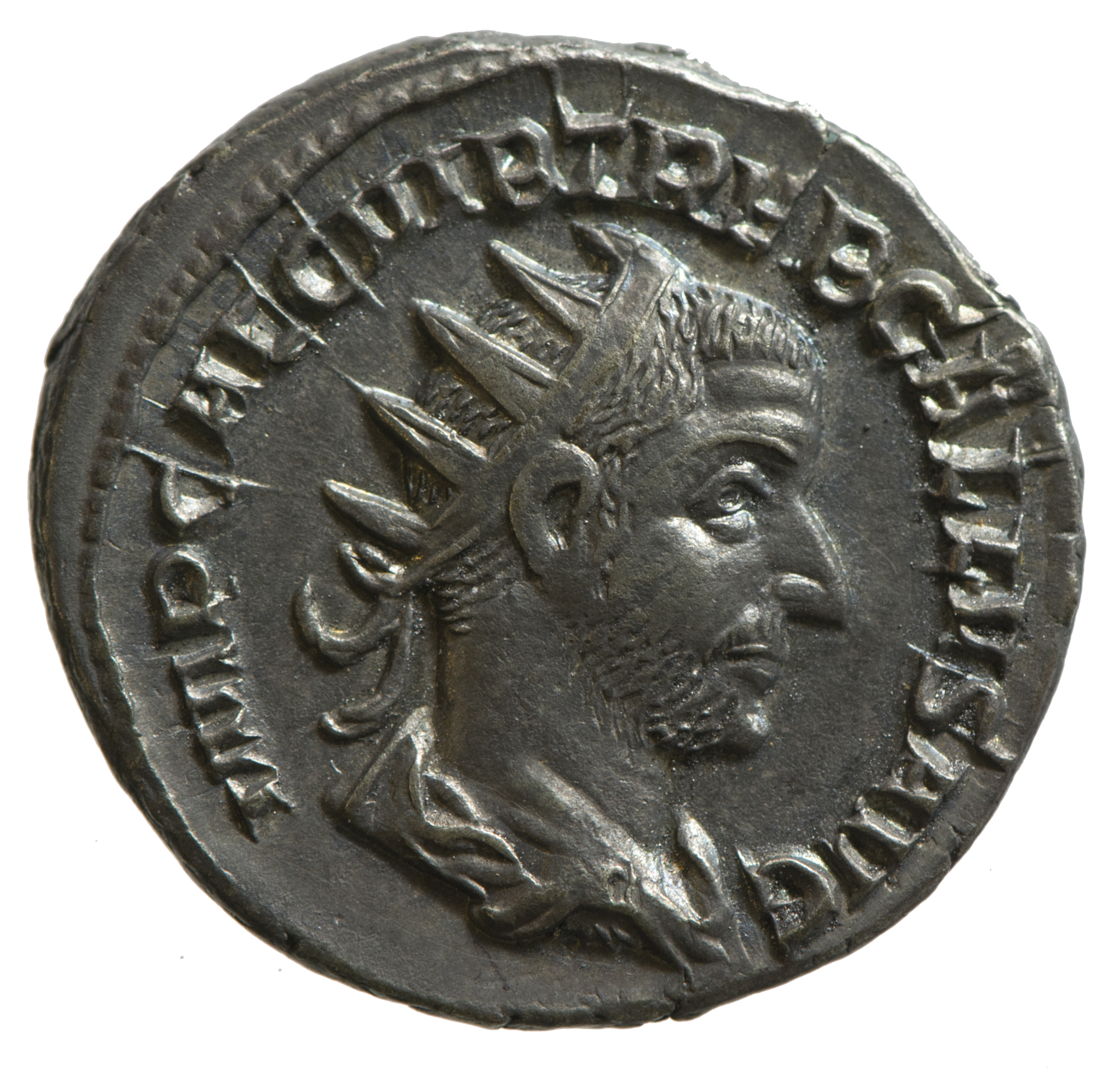 Obverse (front) of a radiate of Trebonianus Gallus head facing right radiate, draped cuirassed